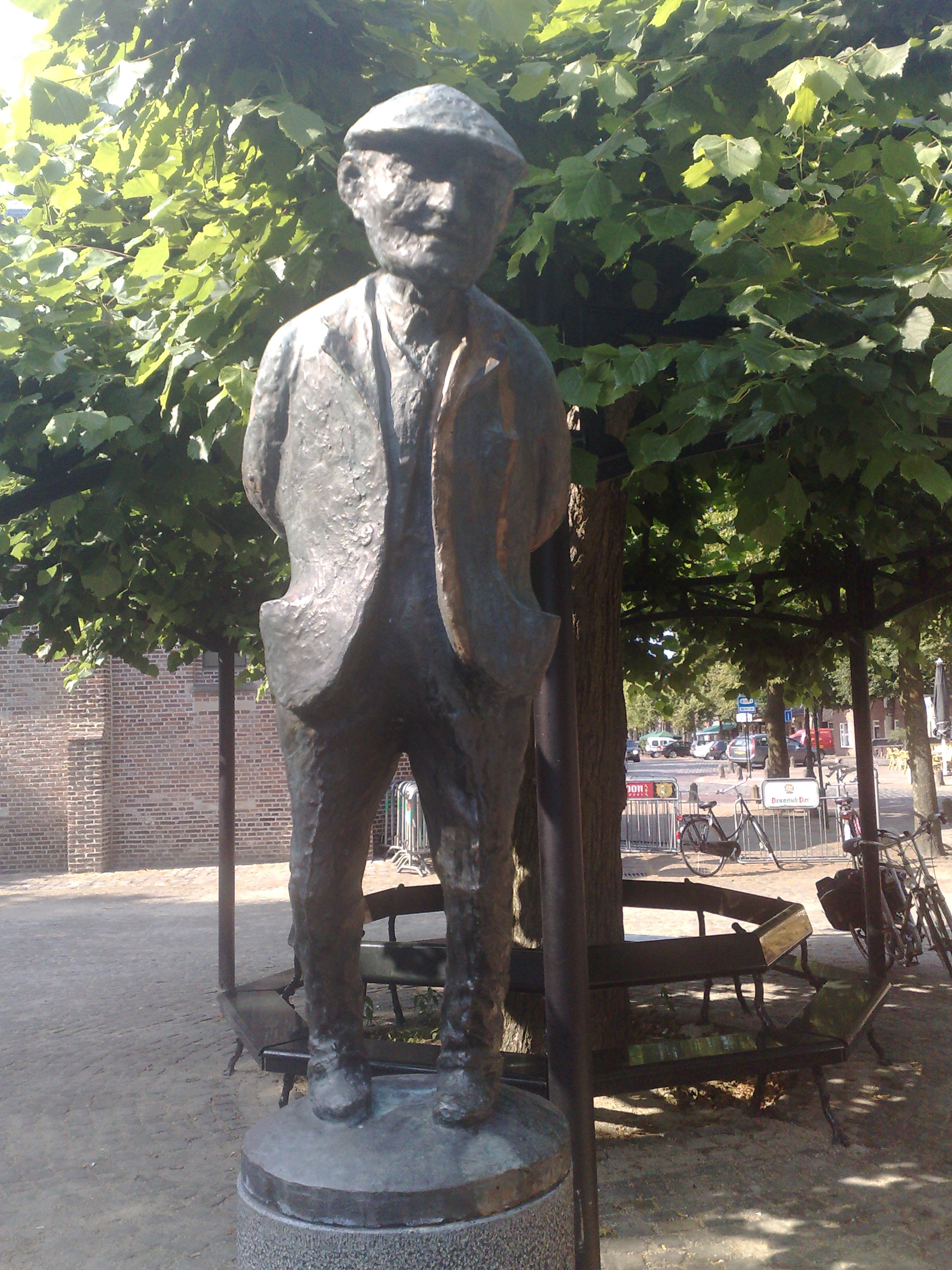 'The Satisfied Human' at Eersel by Richard Bertels (1957)